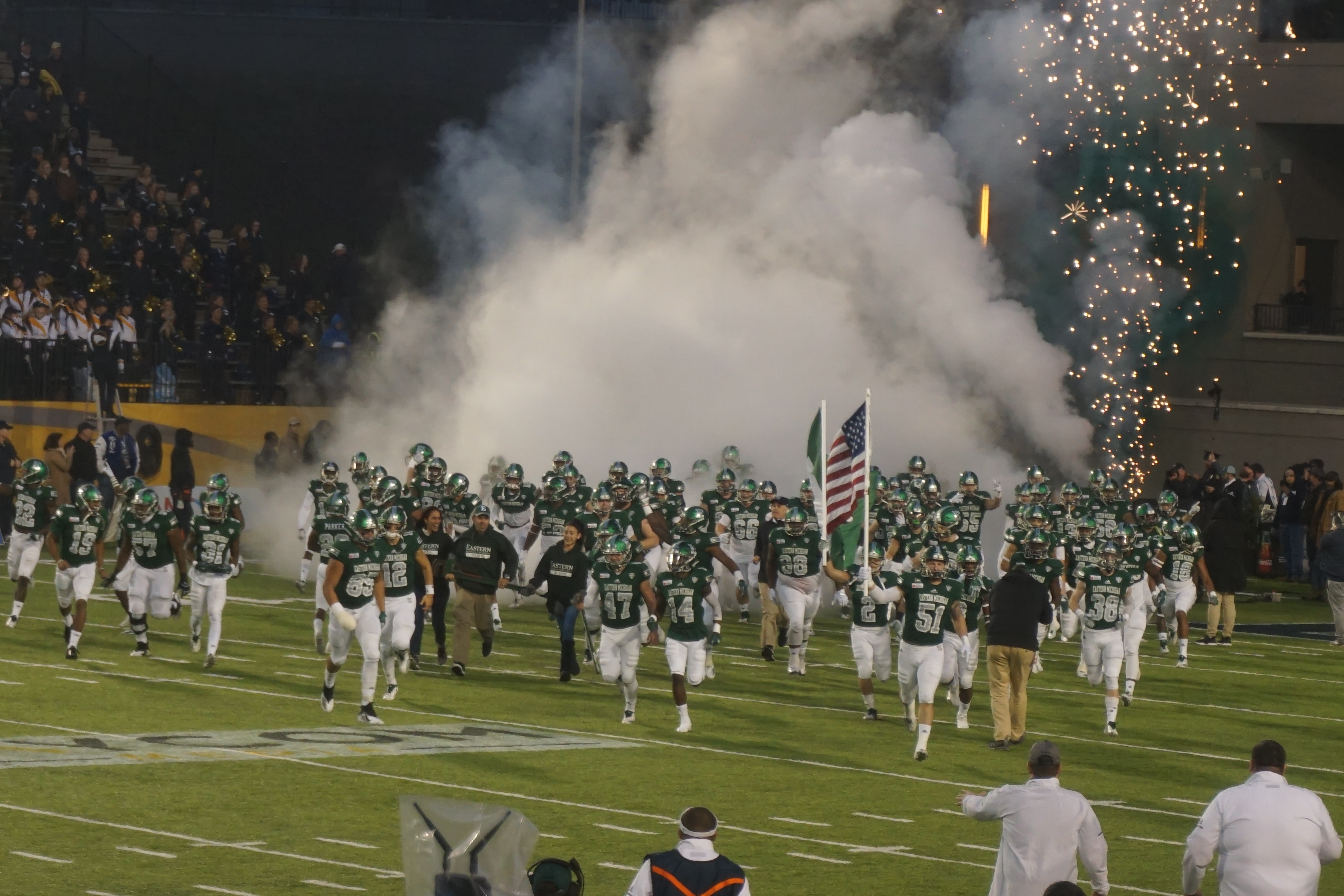 Eastern Michigan entering the field before the 2018 Camellia Bowl (Georgia Southern Eagles vs. Eastern Michigan Eagles) at the Cramton Bowl in Montgomery, Alabama (United States). Georgia Southern won 23–21.